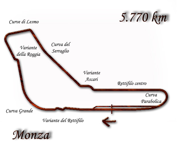 Grand Prix Italy Formula 1 /1995 - 1999/ Autor: Jiří Žemlička